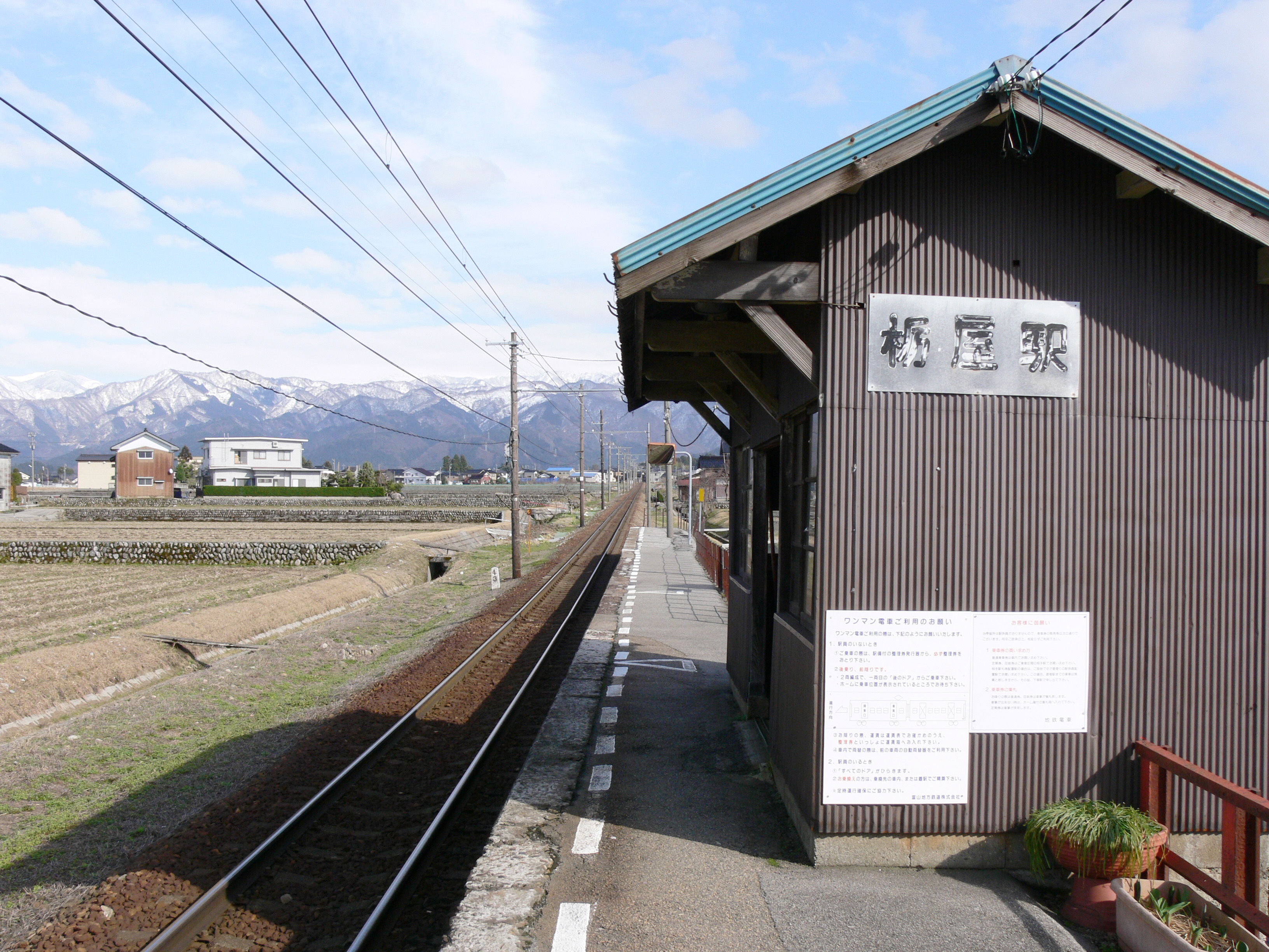 Tochiya Station on the Toyama Chiho Railway Main Line in Kurobe, Toyama Prefecture, Japan